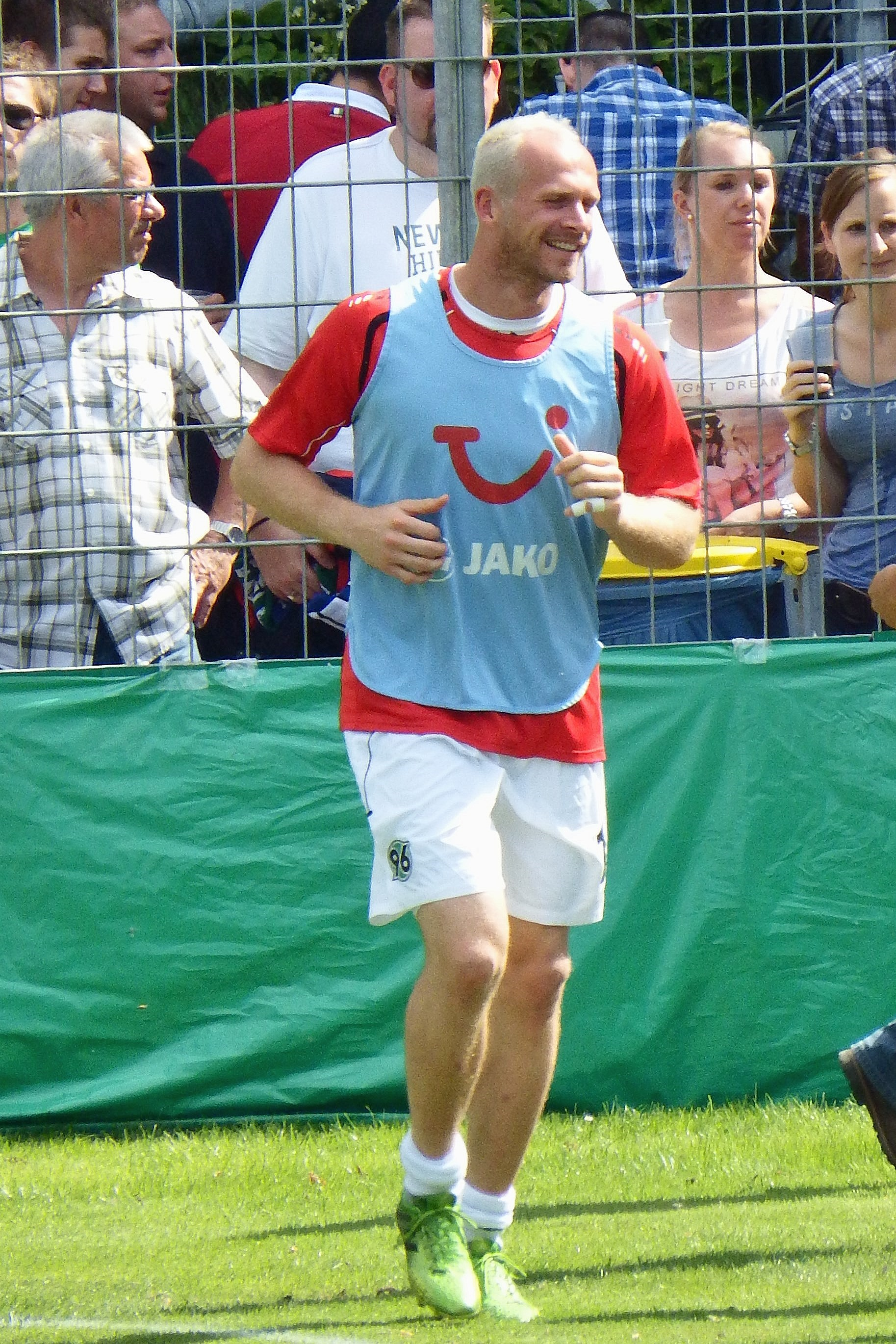 Markus Miller as Player of Hannover 96